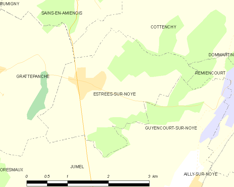 Map of French municipality Estrées-sur-Noye